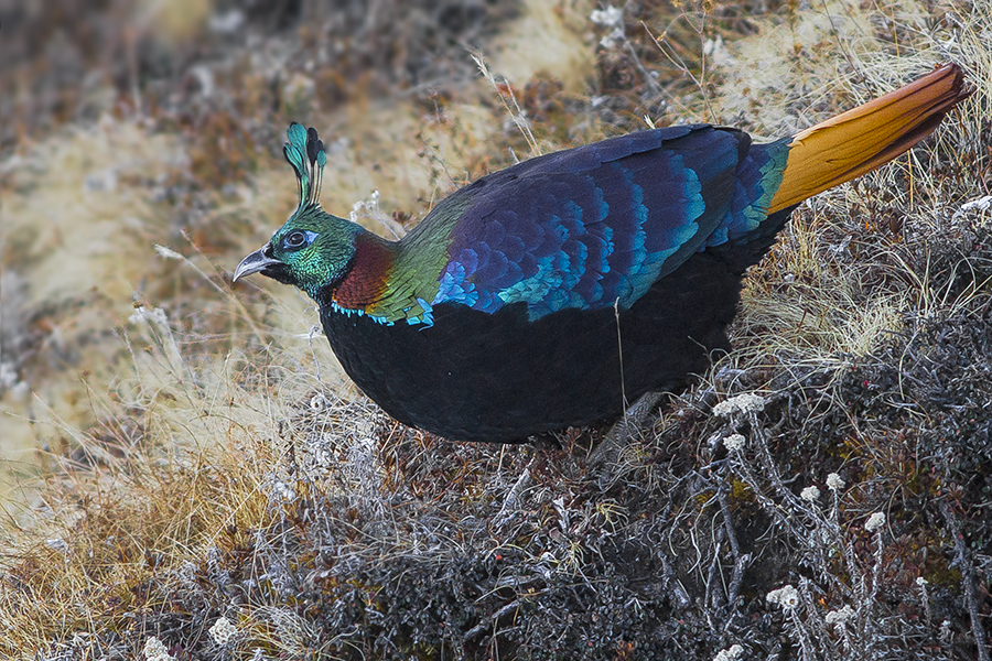 The species Himalayan Monal had been photographed during GoingWild's birding trip to Kedarnath Musk Deer Sanctuary at Chamoli in Uttarakhand, India on 01.12.2015.